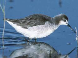 Wilson's Phalarope (Phalaropus tricolor) from US FWS Source: Klamath Basin National Wildlife Refuges, US Fish & Wildlife Service